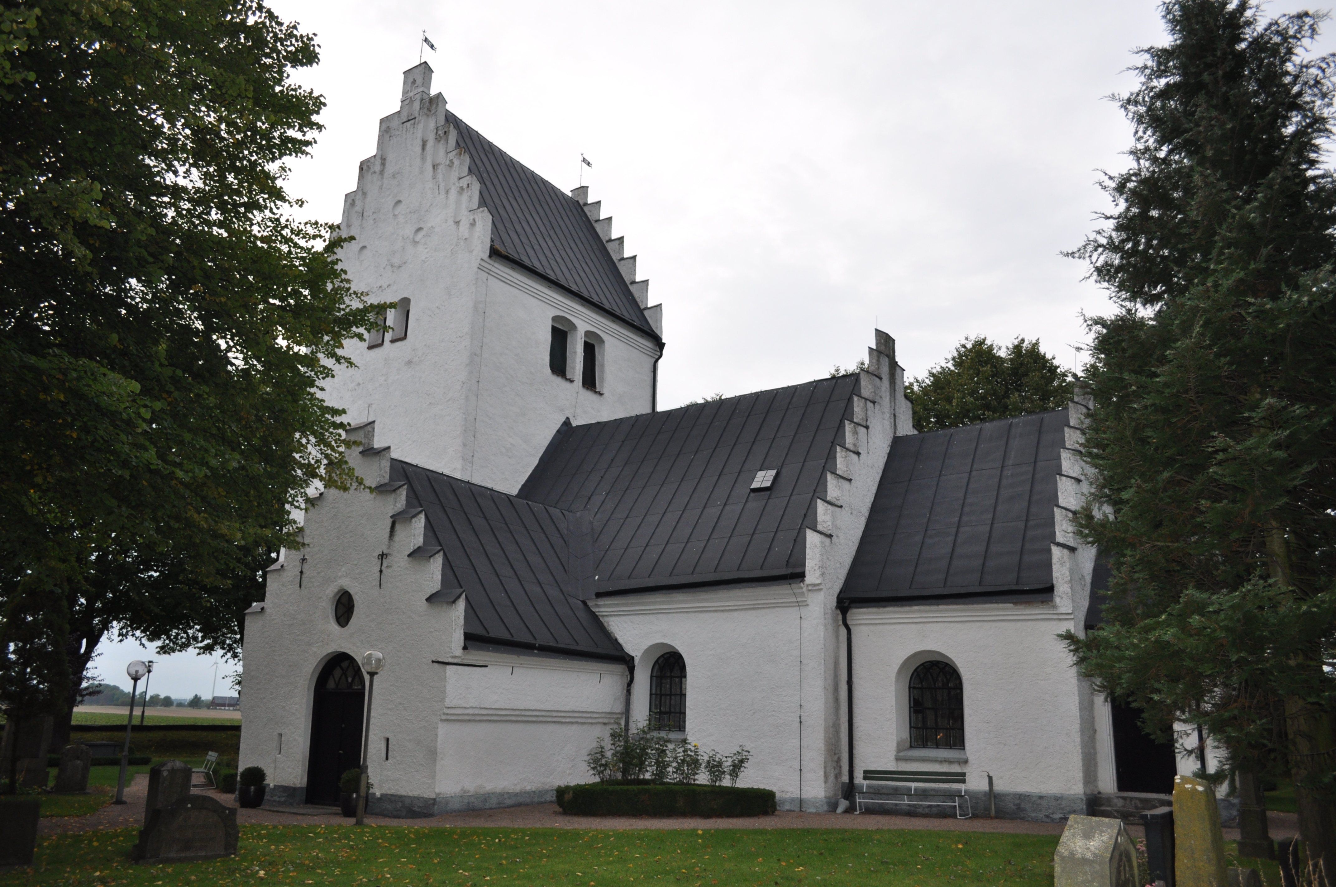 Nymö church - kyrka